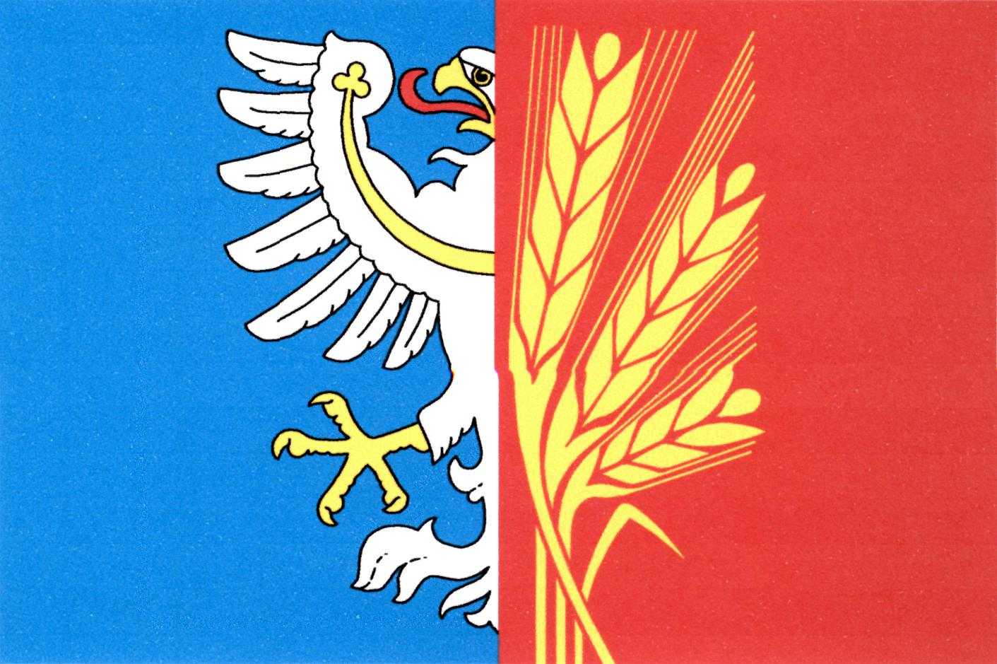 Municipal flag of Kounice , District Nymburk, Czech Republic